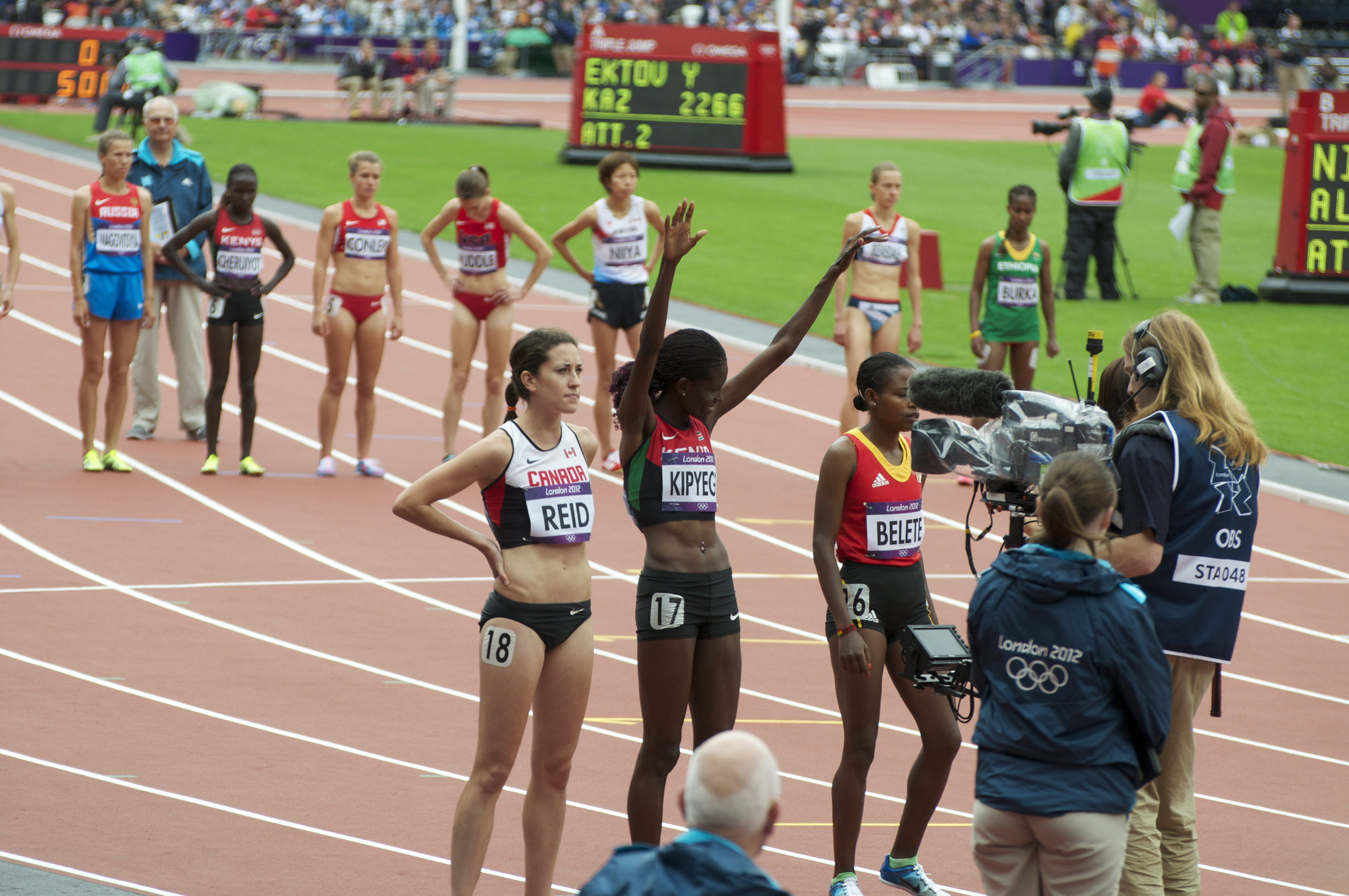 Women's 5000m, Sheila Reid, Sally Jepkosgei Kipyego